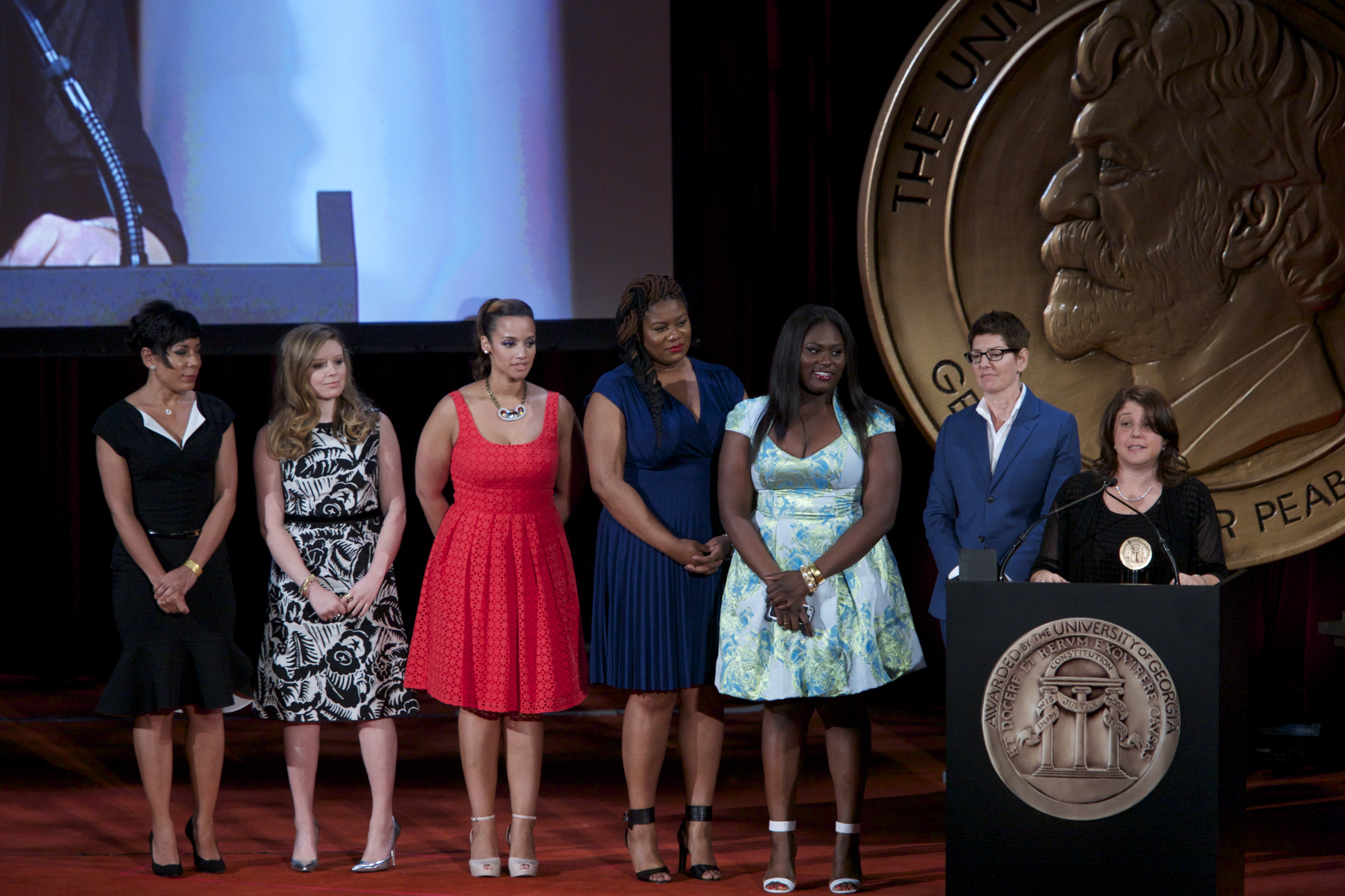 Orange is the New Black cast at the 73rd Annual Peabody Awards.